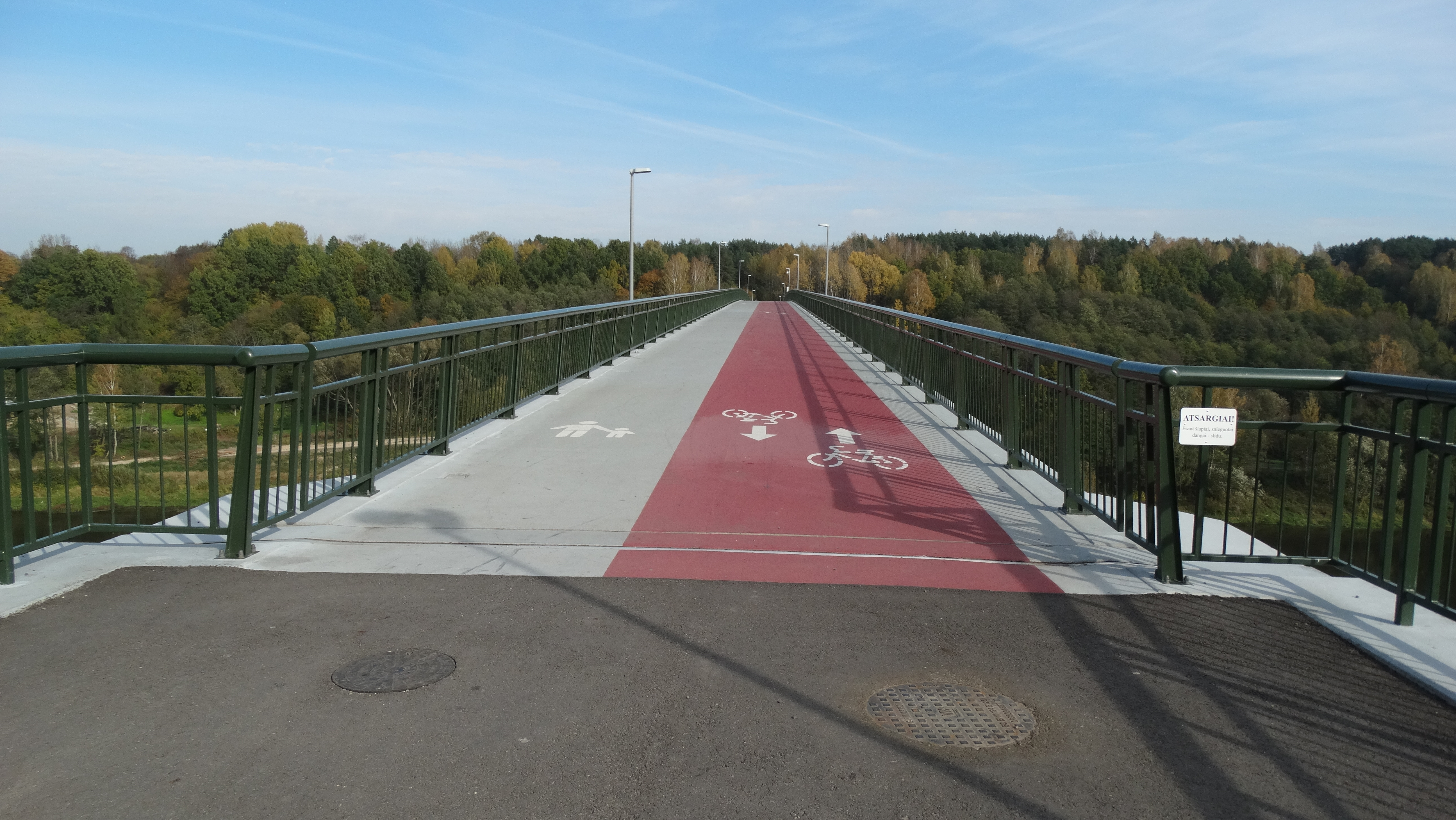 Footbridge, Alytus, Lithuania